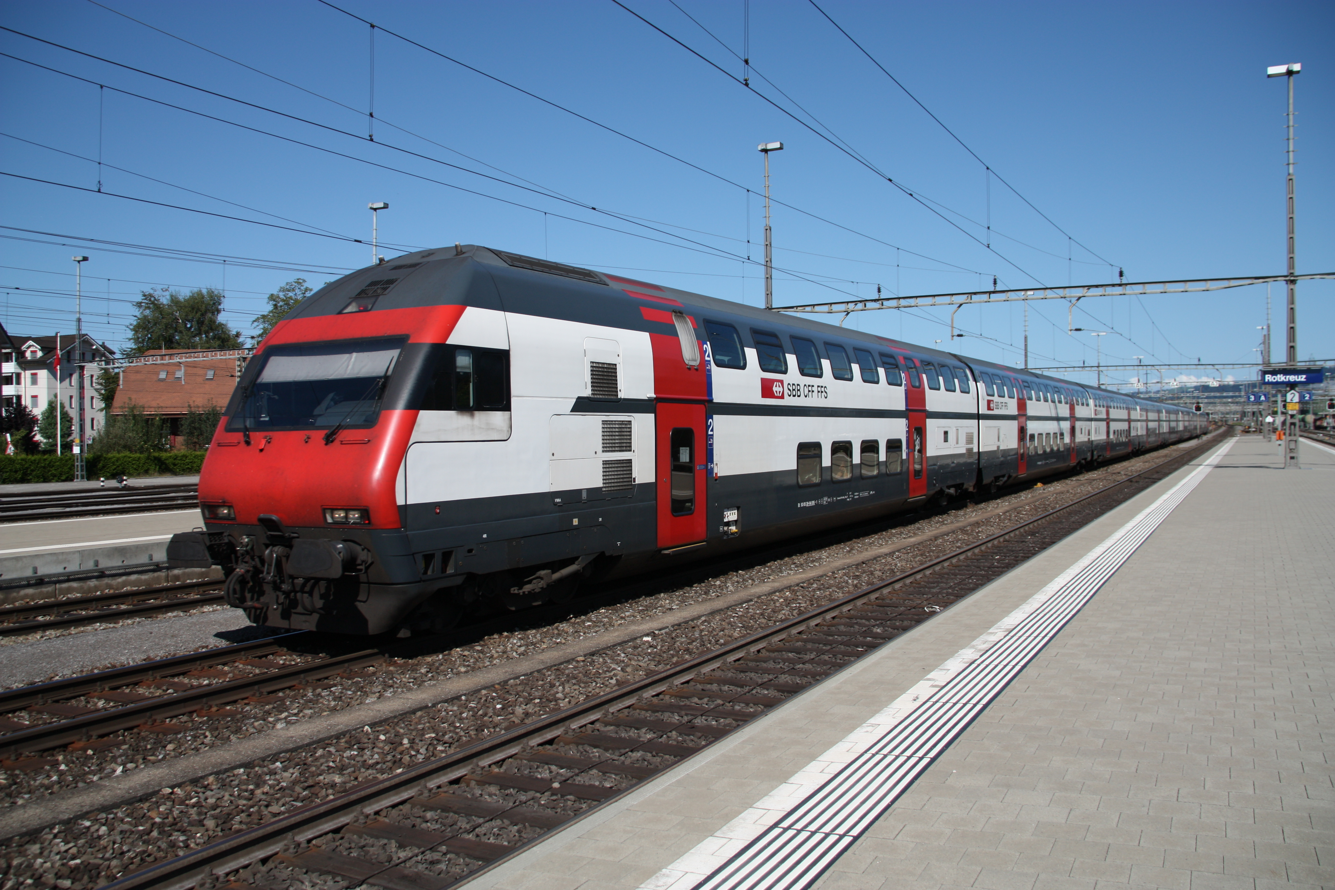 Rotkreuz train stationInterRegio IR 2347 – Zurich – Lucerne